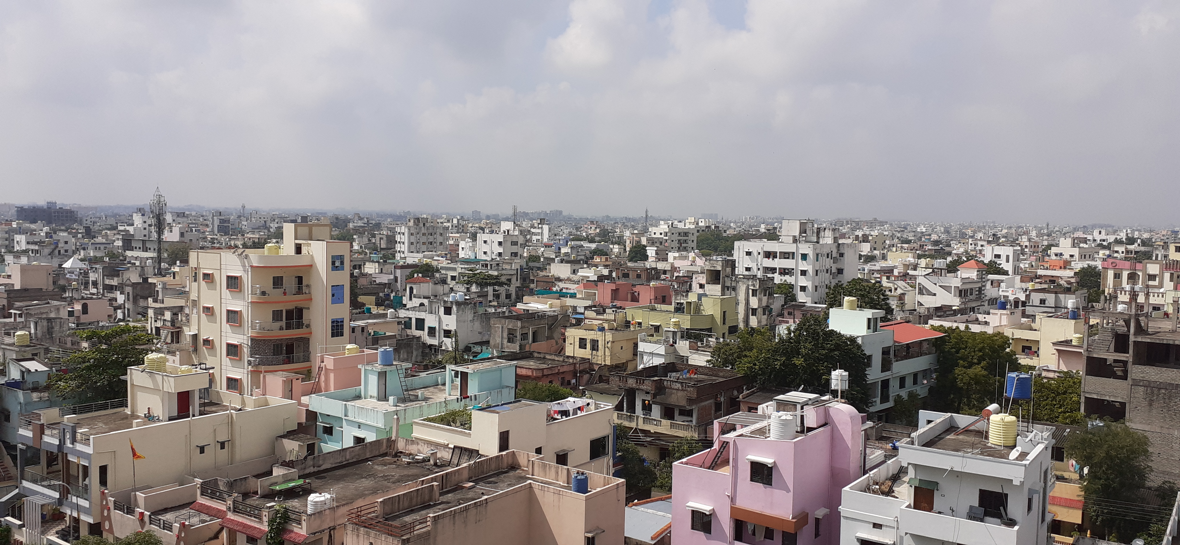 Skyline South Nagpur 2019. The area portrayed falls out of the ring road and was one of the growth centres in the past few decades. Significant housing growth is visible in the picture. Houses are typically either independent houses or apartment buildings up to four floors.